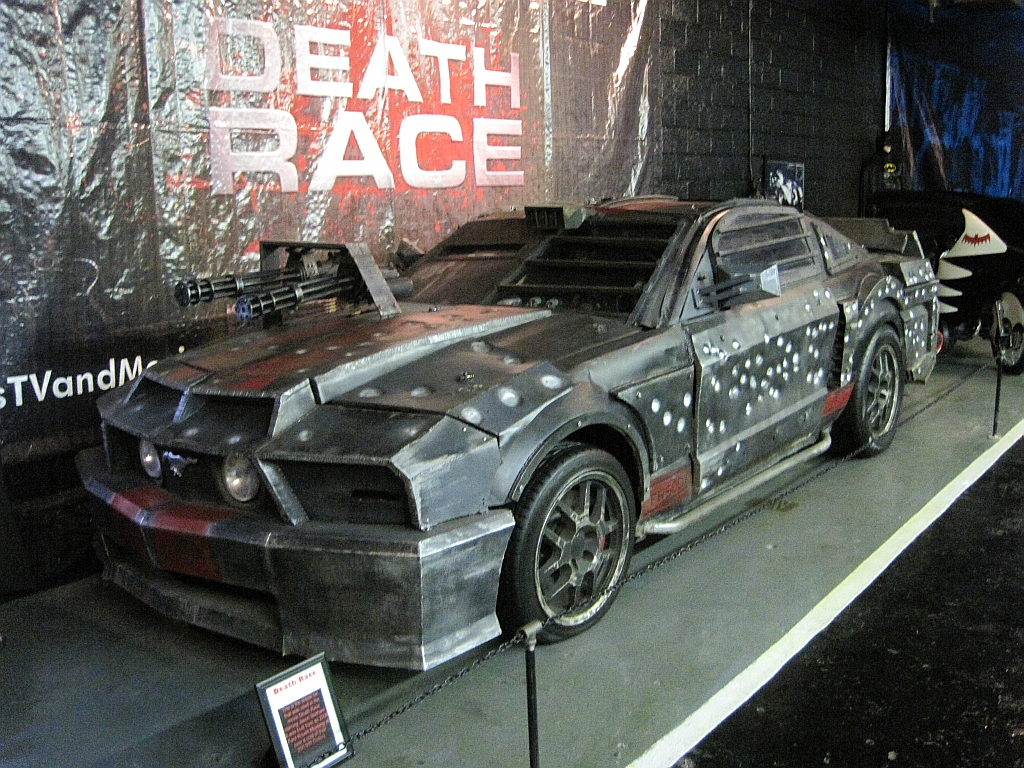 Rusty's TV & Movie Car Museum in Jackson, Tennessee. Death Race